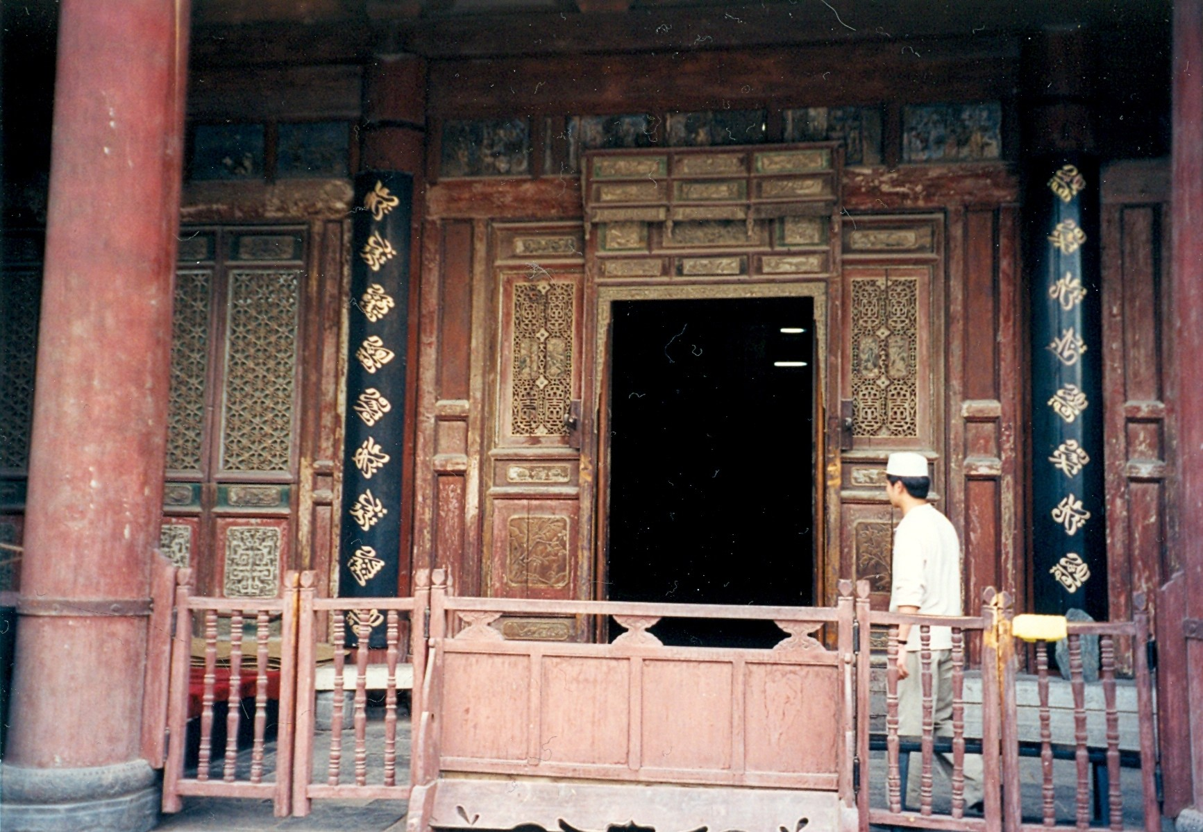 Great Mosque of Xi'an, Shaanxi, China.